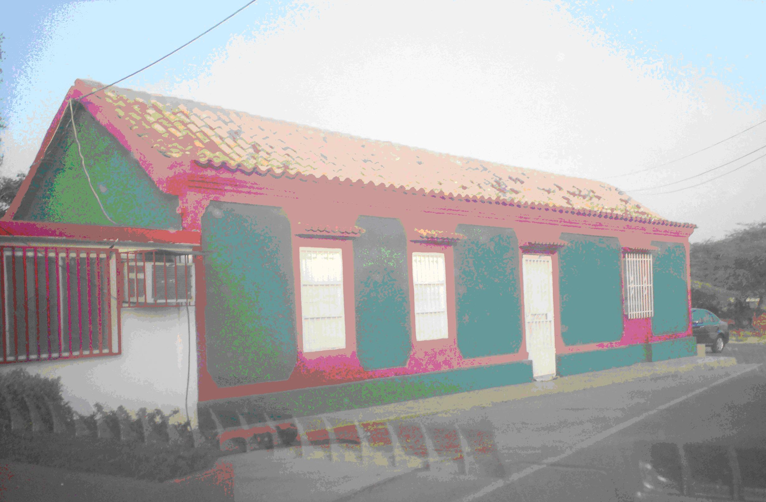 casa colonial